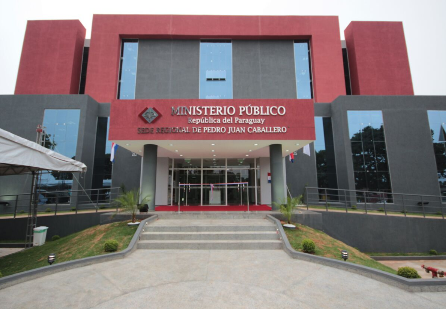 Public Ministry of Pedro Juan Caballero city.